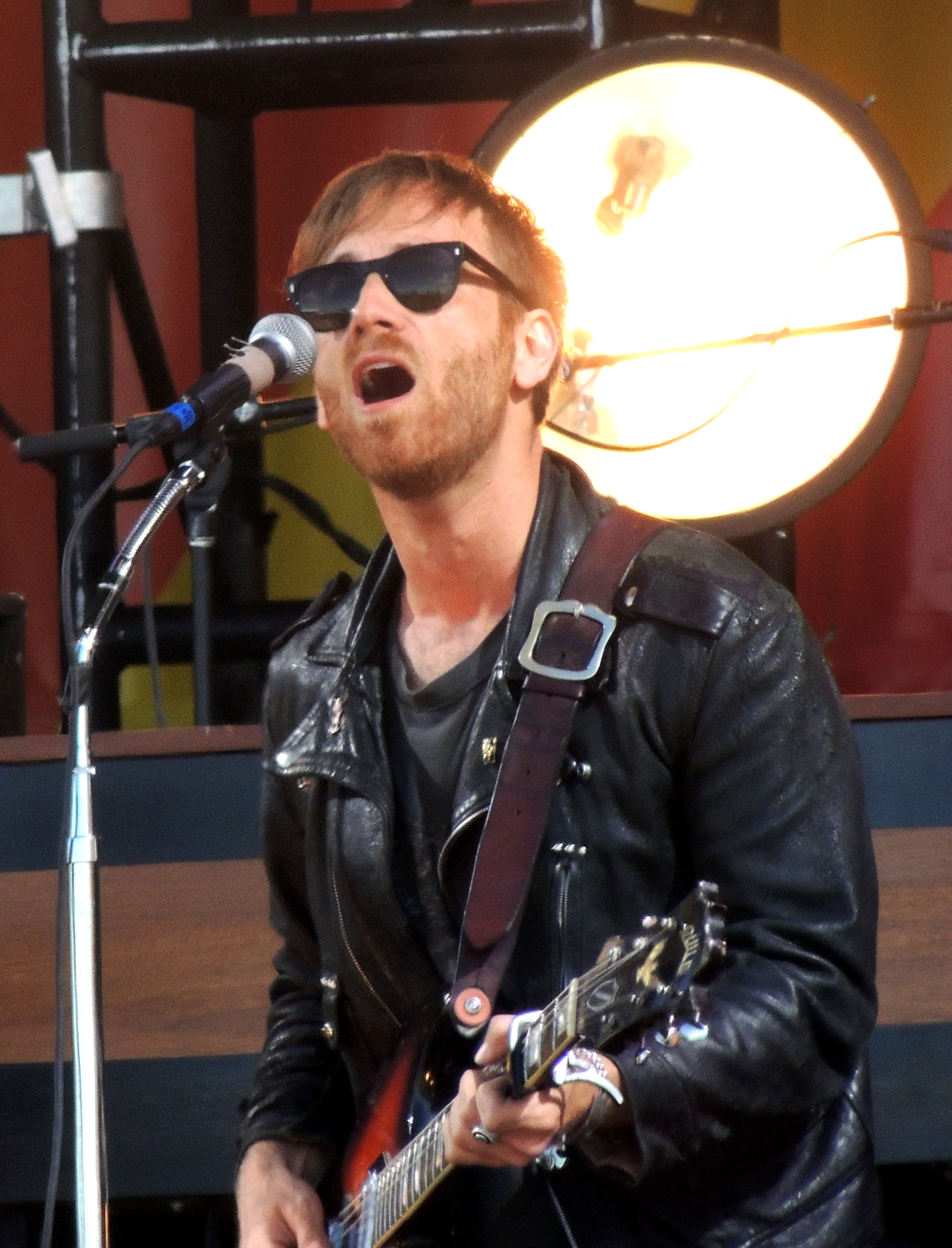 The Black Keys at NOLA JazzFest